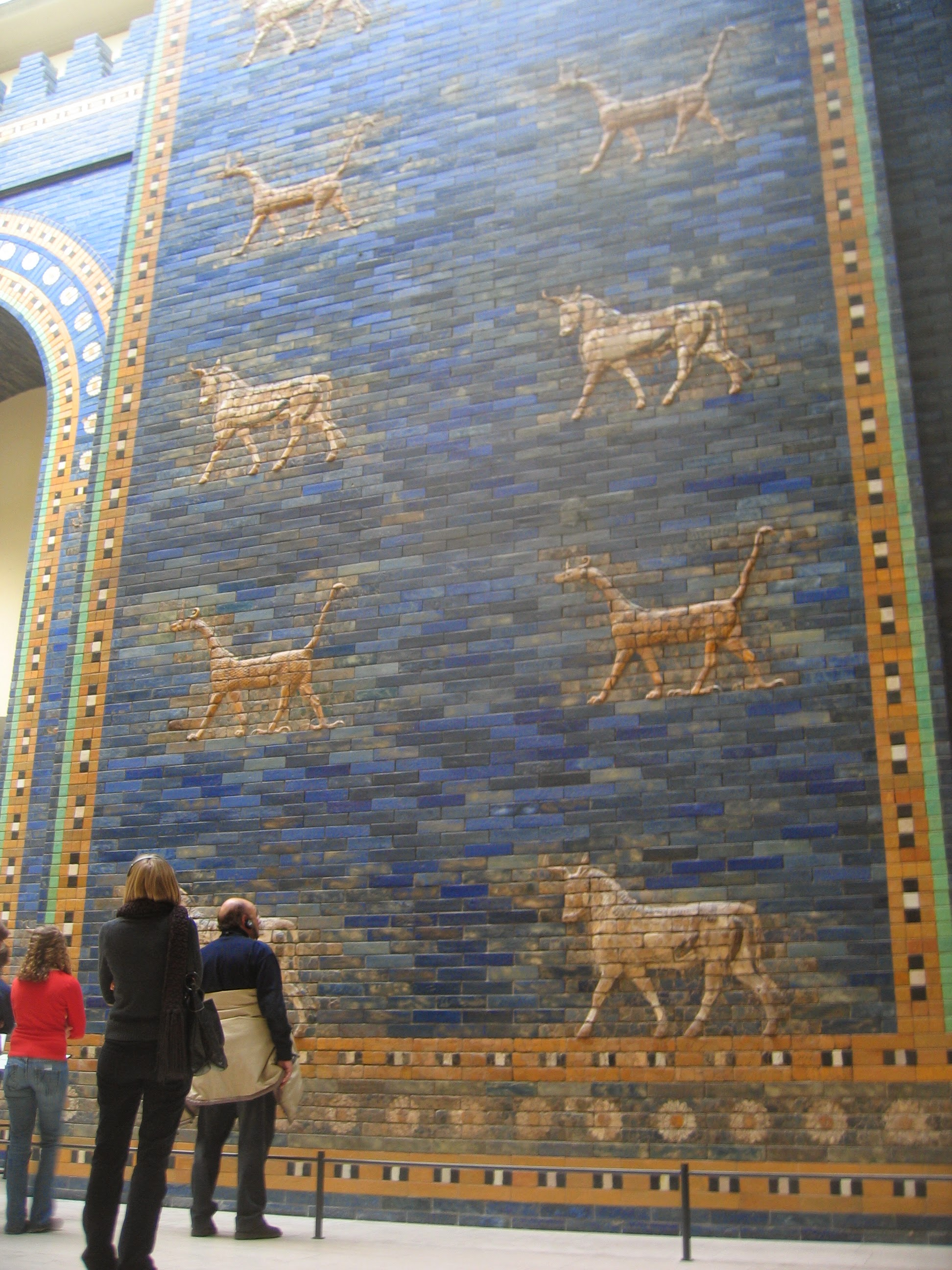 Pergamonmuseum, Berlin